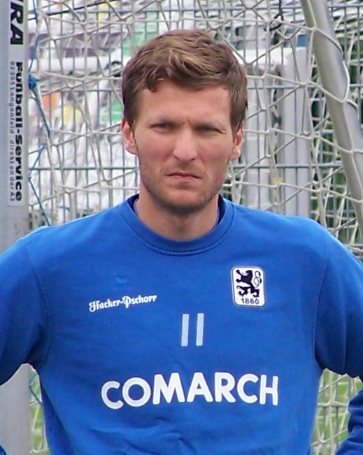 Benny Lauth, TSV 1860 München, Training Grünwalder Straße